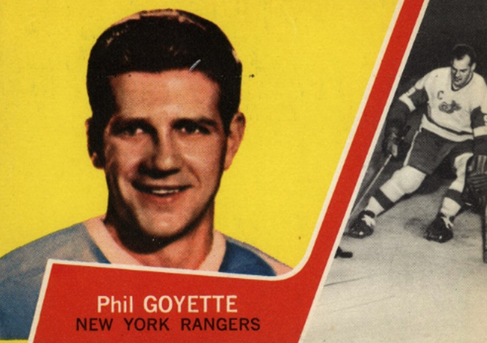 Phil Goyette